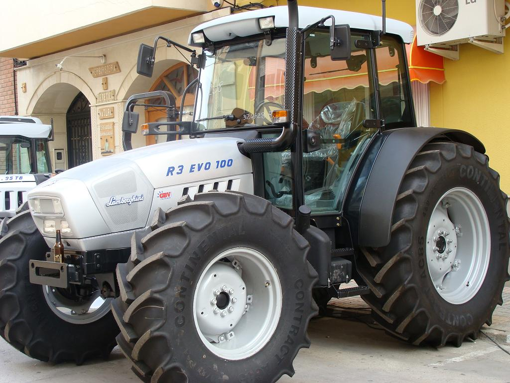 Lamborghini R3 EVO 100 tractor